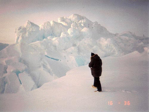 A long ridge of ice that has formed when two floes of thick ice have been squeezed together by wind or ocean currents, with the ice breaking into chunks that pile upward and also downward below the ice. This ice is difficult to cross on foot or with sleds or snowmobiles.